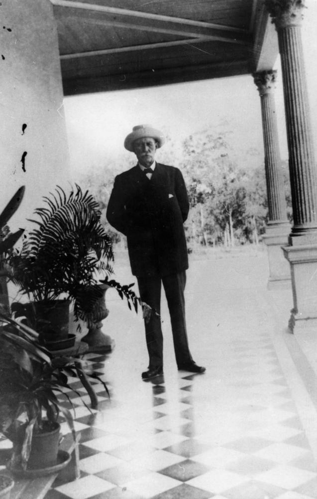 Alexander Stewart at Glen Lyon, Ashgrove, ca. 1917 Photograph of Alexander taken at the property, Glen Lyon not long before his death in 1918. (Description supplied with photograph.).